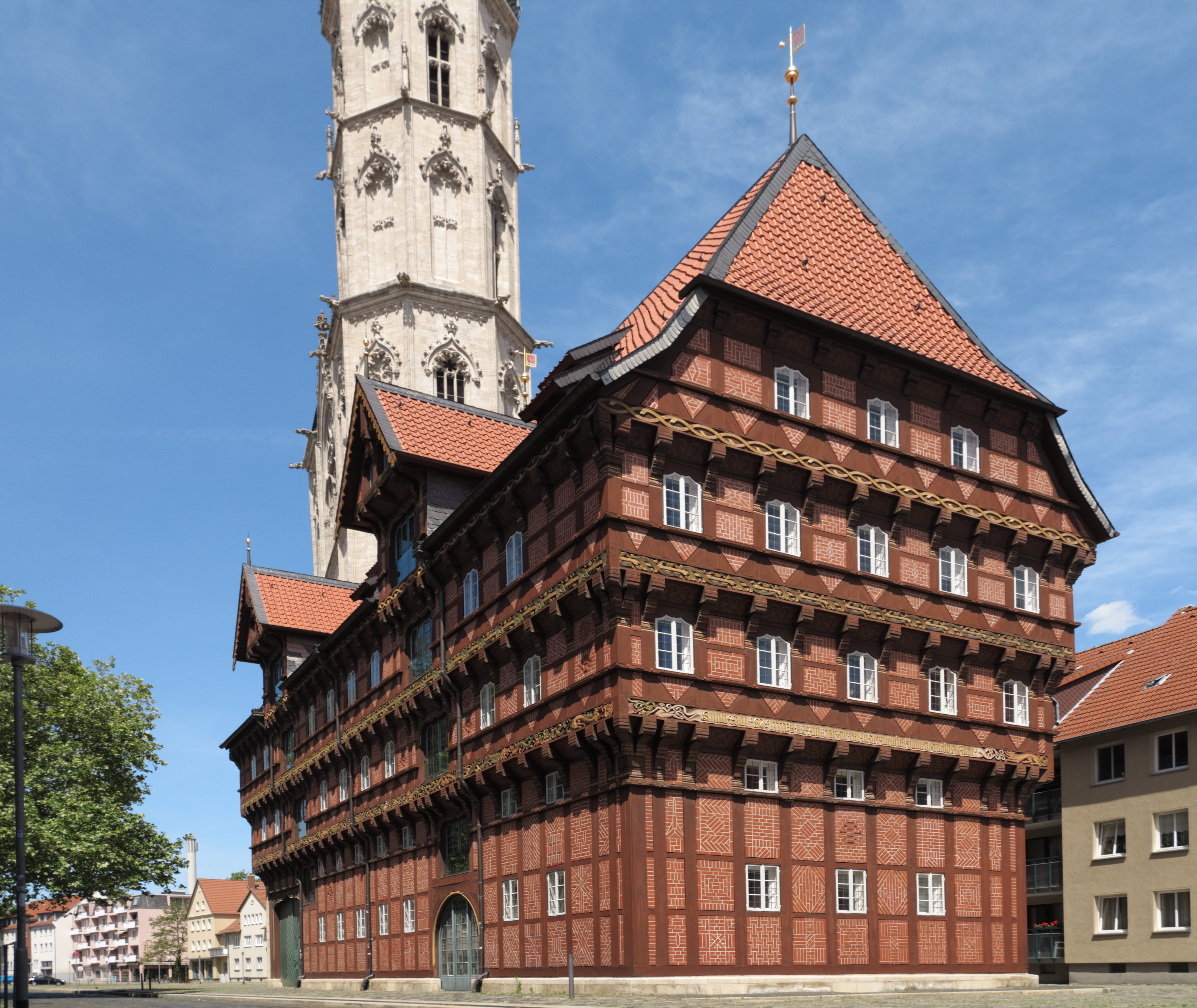 The Old Scale (Alte Waage) in Brunswick, Germany. It was constructed in 1534, destroyed in World War II and reconstructed in 1994. In the background: the south tower of the Church of St. Andrew.